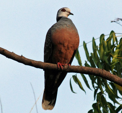 Adamawa Turtle Dove Streptopelia hypopyrrha in a tree. Poli, Cameroon.